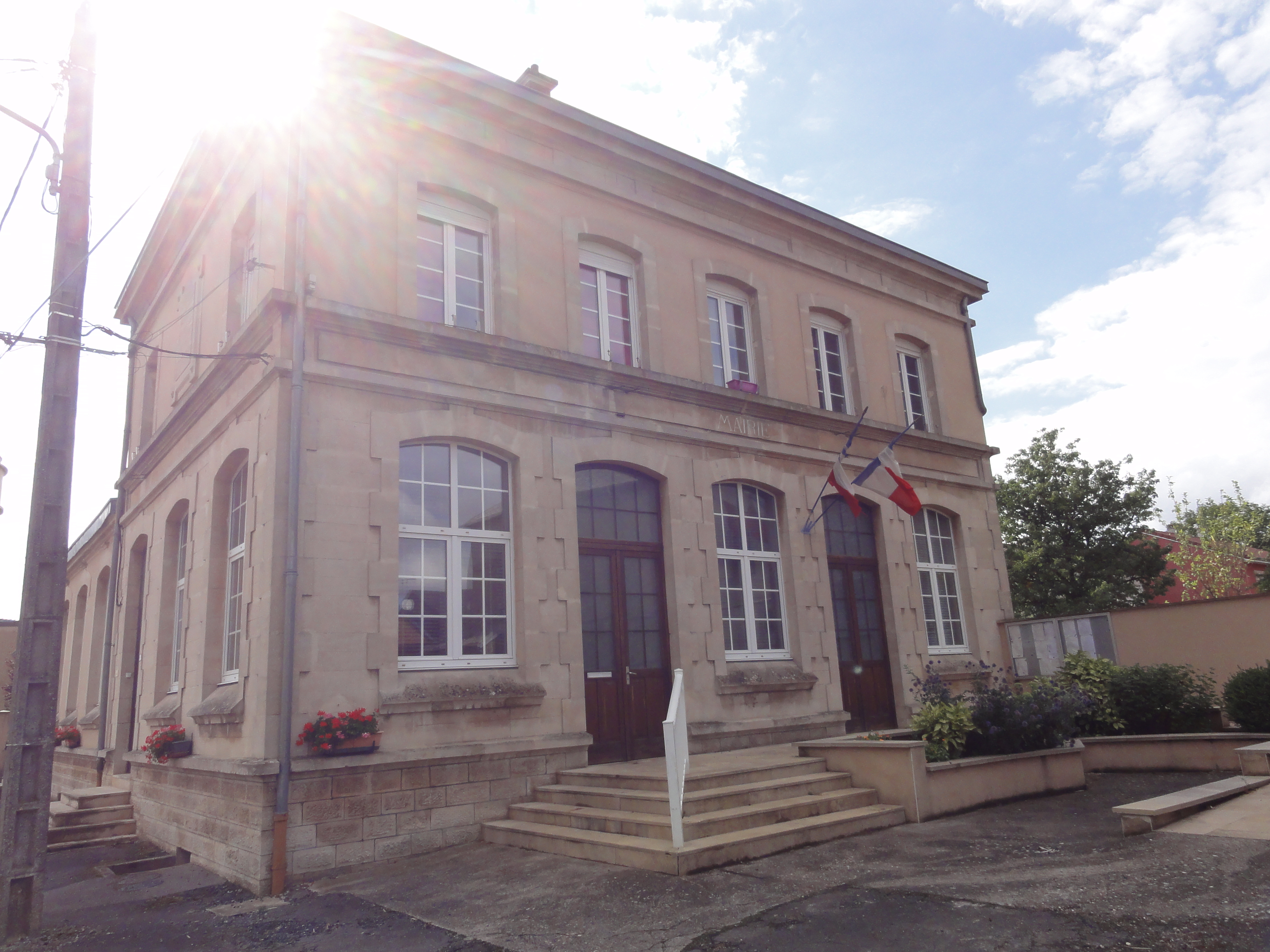 Bazailles (Meurthe-et-M.) mairie